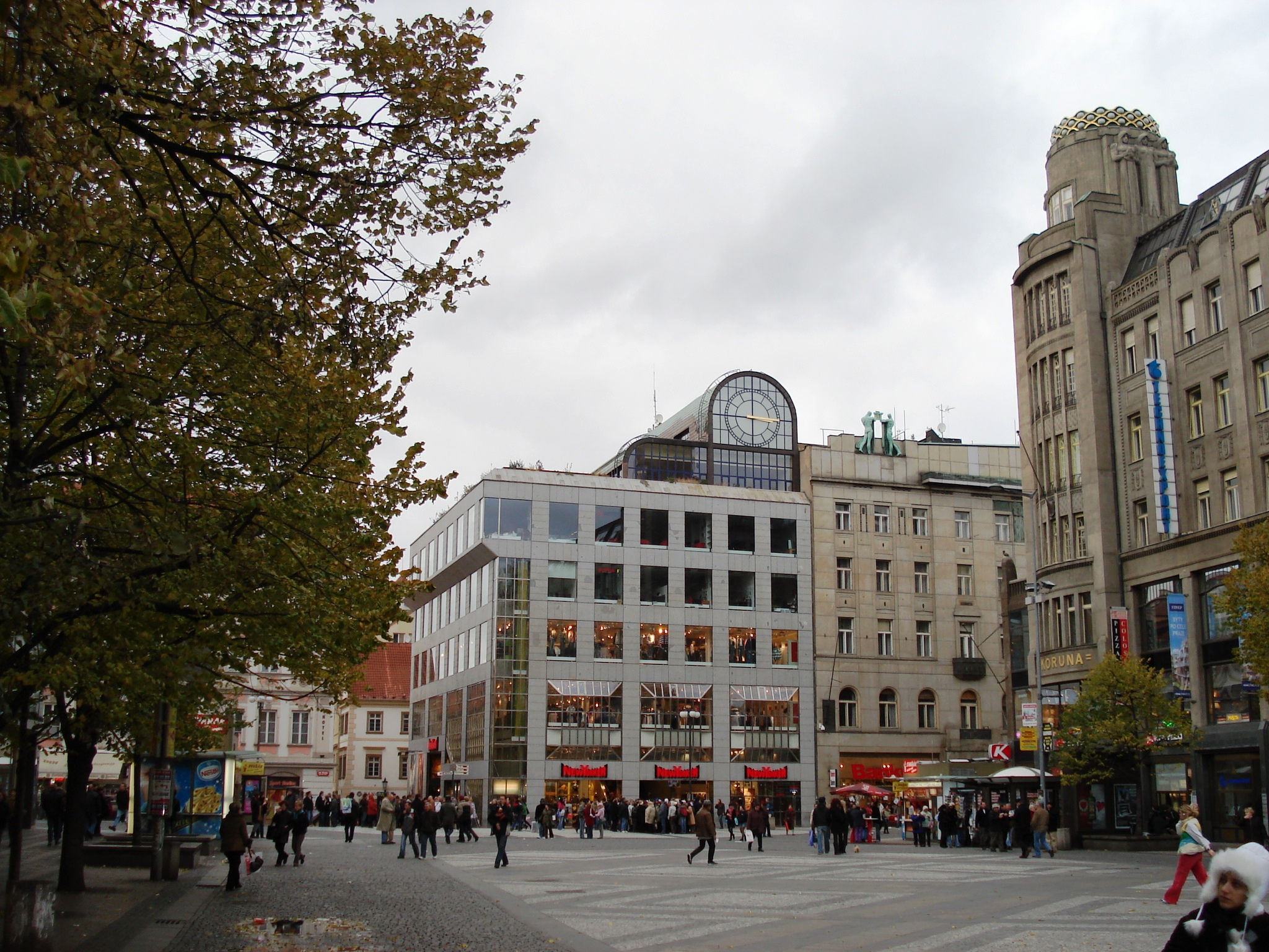 Mustek is Venceslas square lower part.